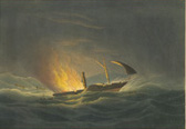 The paddle steamer Madagascar, under the command of Capt. James Minns Dicey, is consumed by fire during a typhoon at the entrance to the Formosa Channel, while serving in the fleet of the British East India Company as part of the First Opium War against China. Three of the ship's four lifeboats were reportedly lost and 57 of the crew drowned. Taken from an engraving by E. Duncan. based on a painting by W. J. Huggins after original sketch by Capt. Dicey.